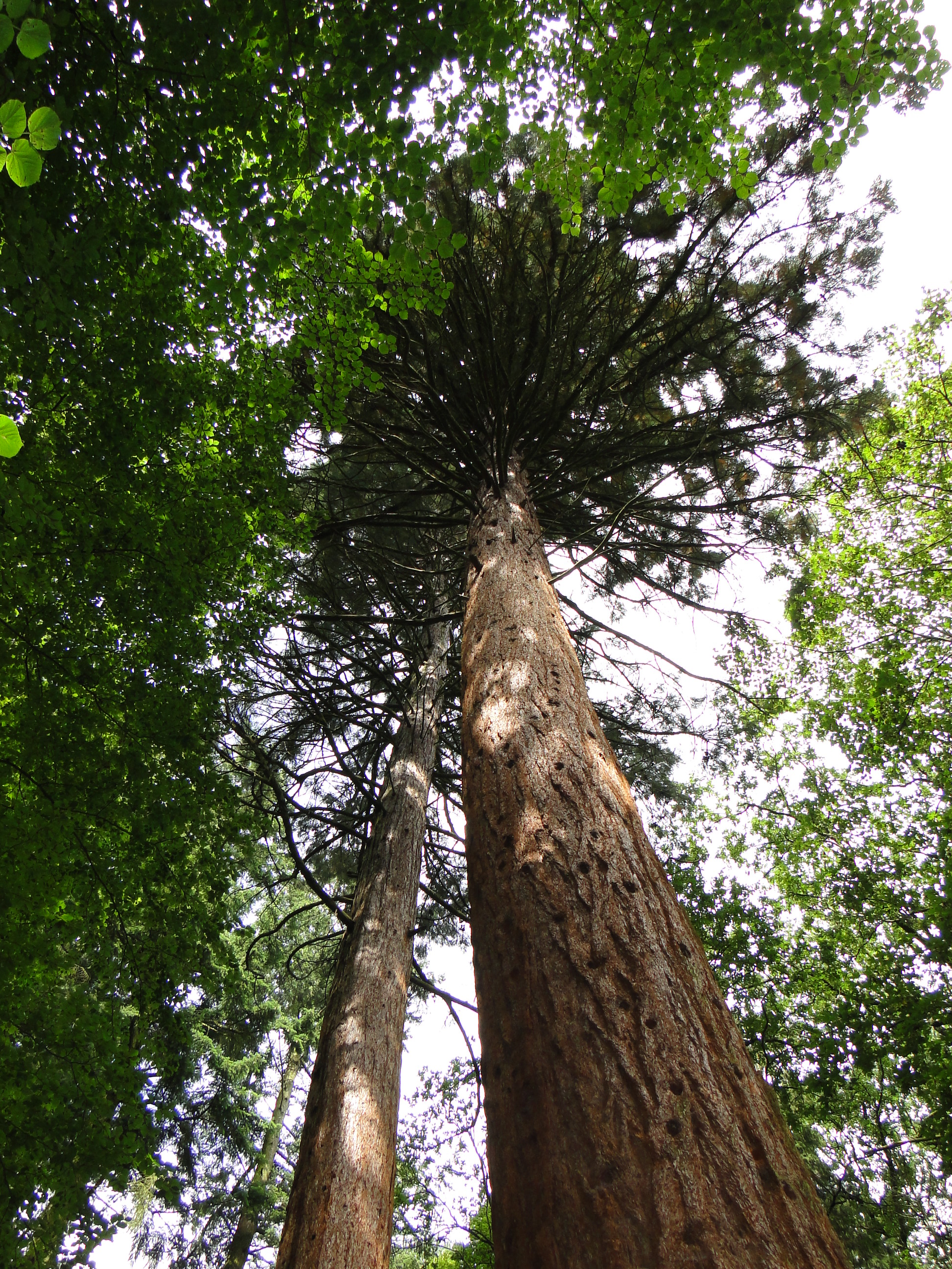 Redwood trees (Sequoiadendron giganteum, Natural monument), memorial for forester Heinrich Hagge and pond Schapwäsch near Kölpin, district Parchim, Mecklenburg-Vorpommern, Germany